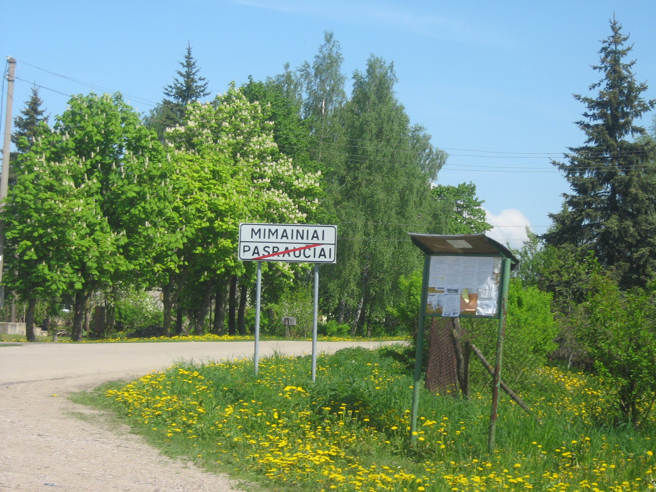 Mimainiai